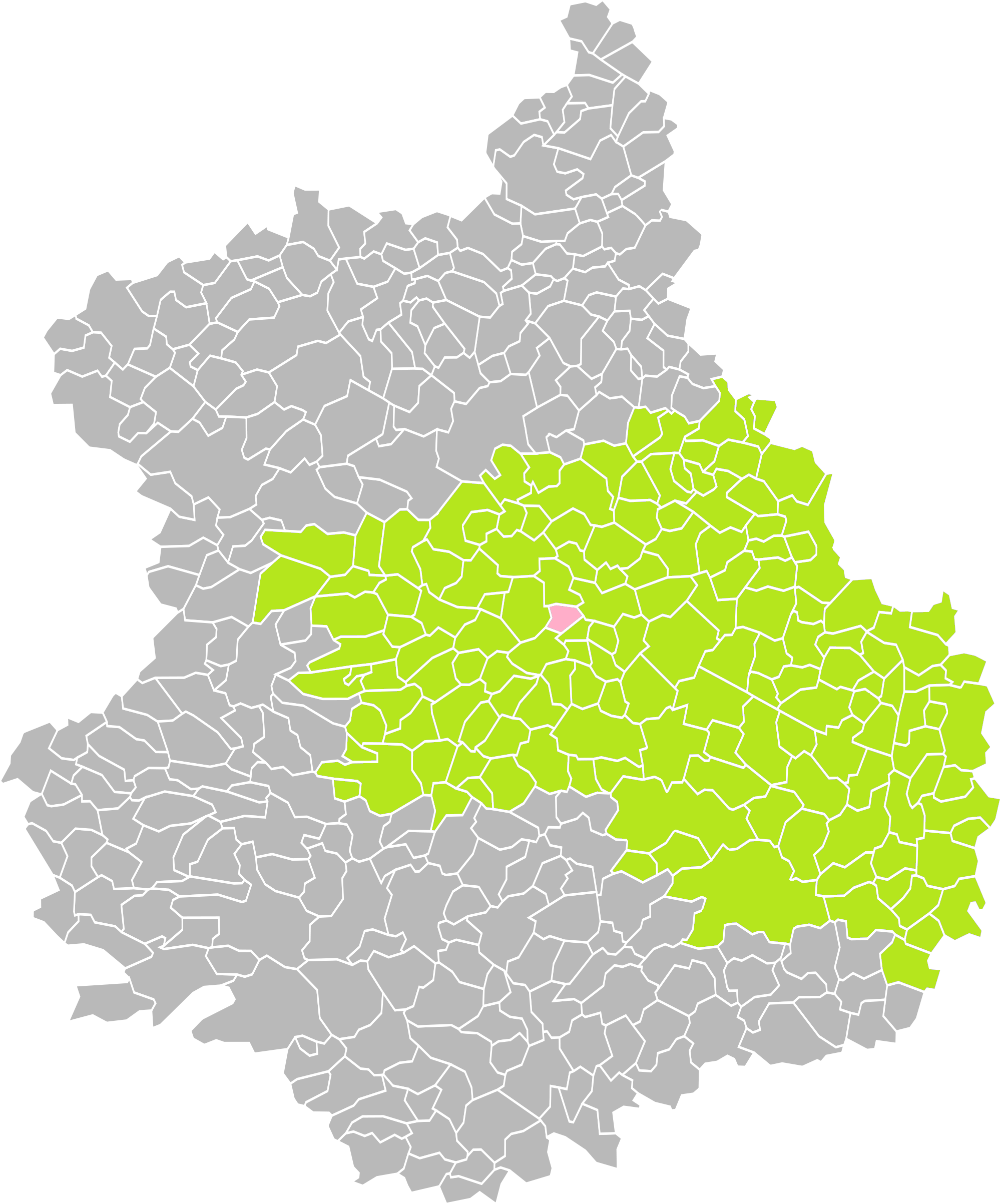 Location of the commune of Lucé in the arrondissement of Chartres (Eure-et-Loir)